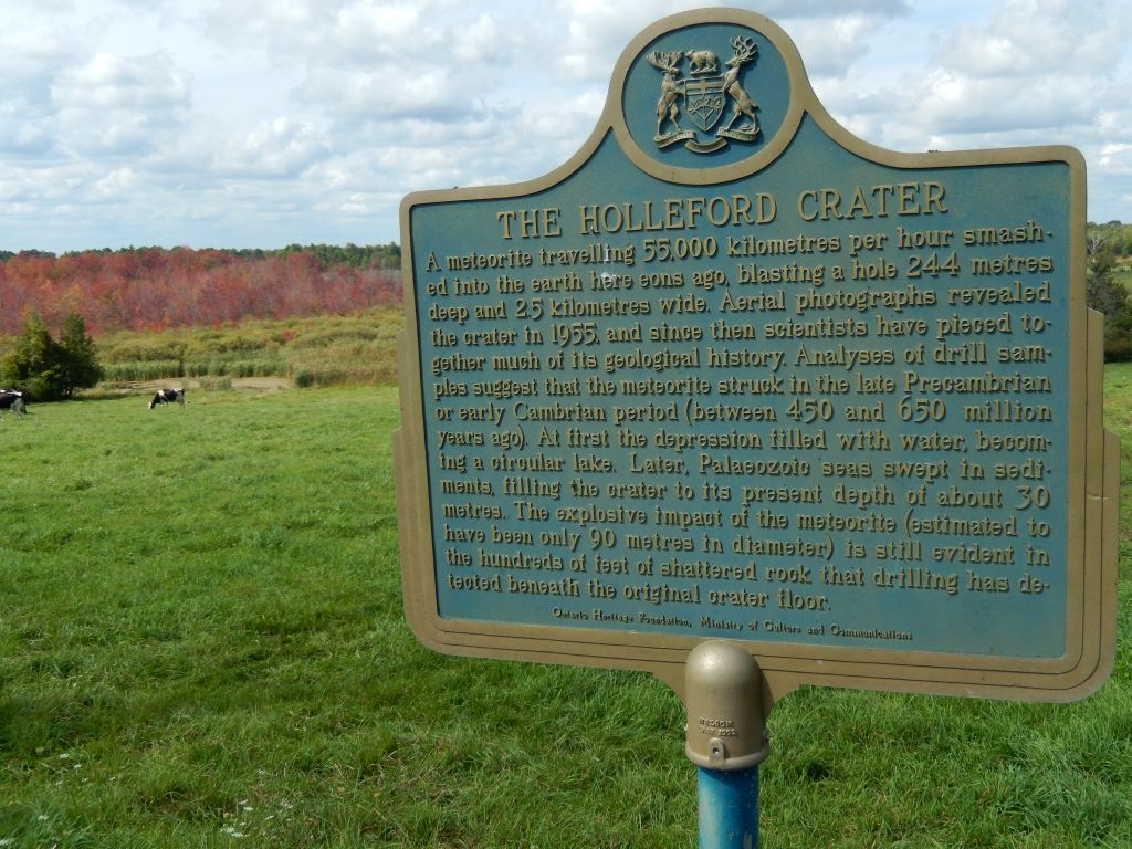 Holleford Crater historical plaque, Holleford, Ontario